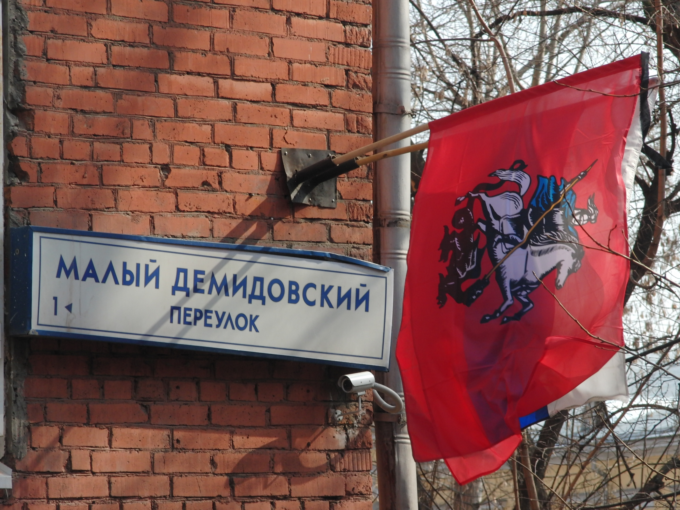 Moscow flag